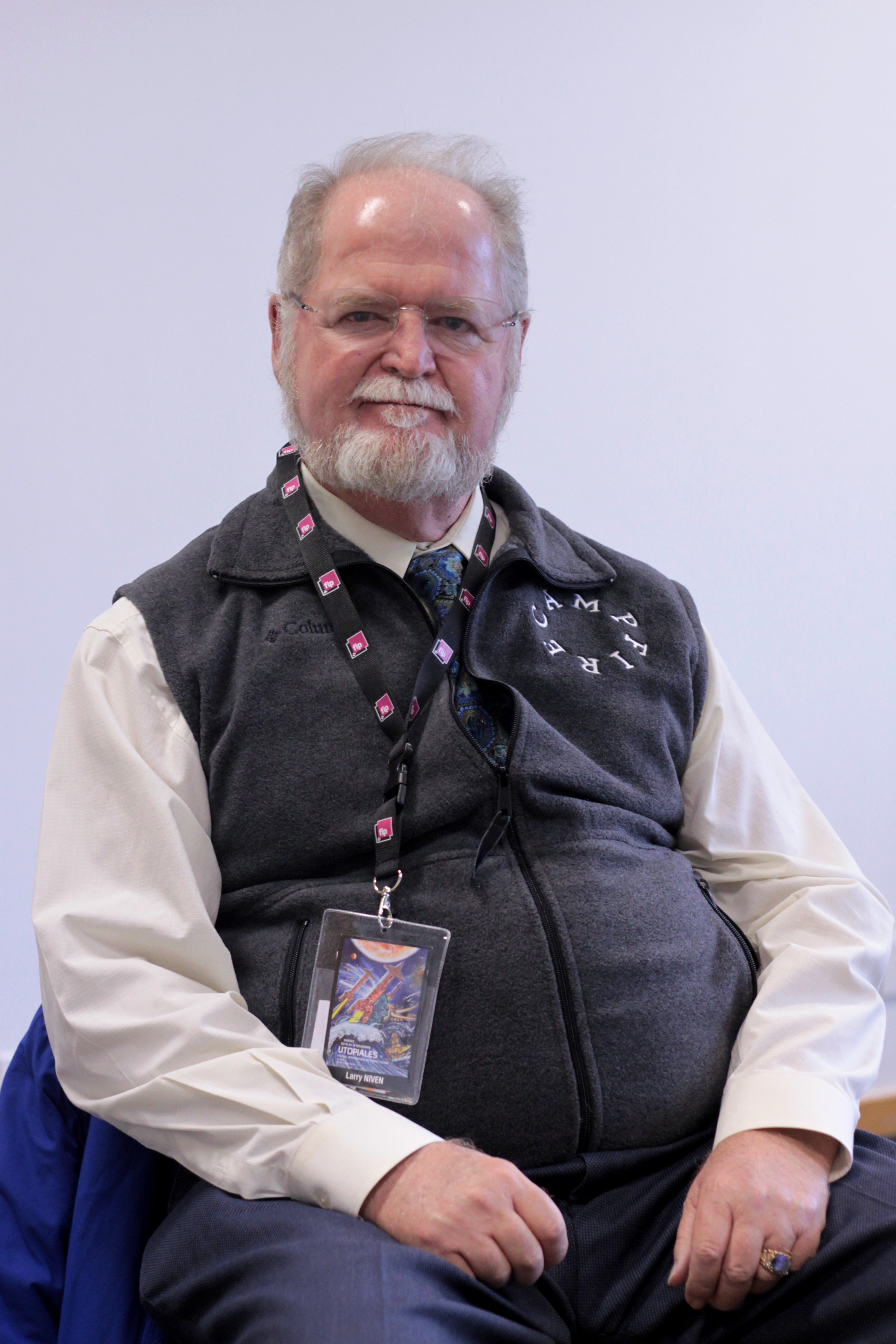 Author Larry Niven at Utopiales convention 2010 (France).